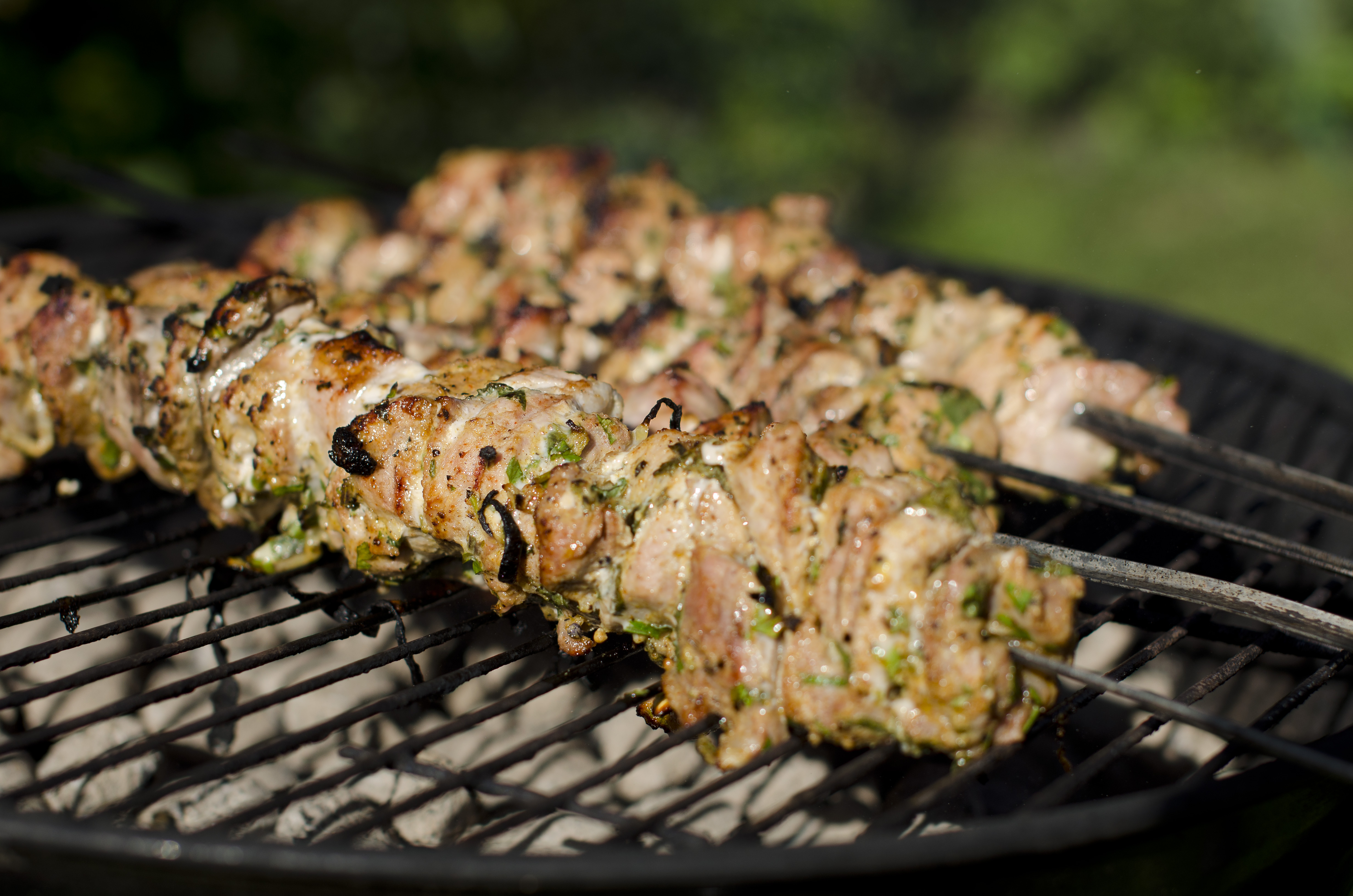 Shashlyk or Shashlik, is a form of Shish kebab popular throughout the former Soviet Union, Eastern Europe, Pakistan, Mongolia, Iran and Israel among other places.